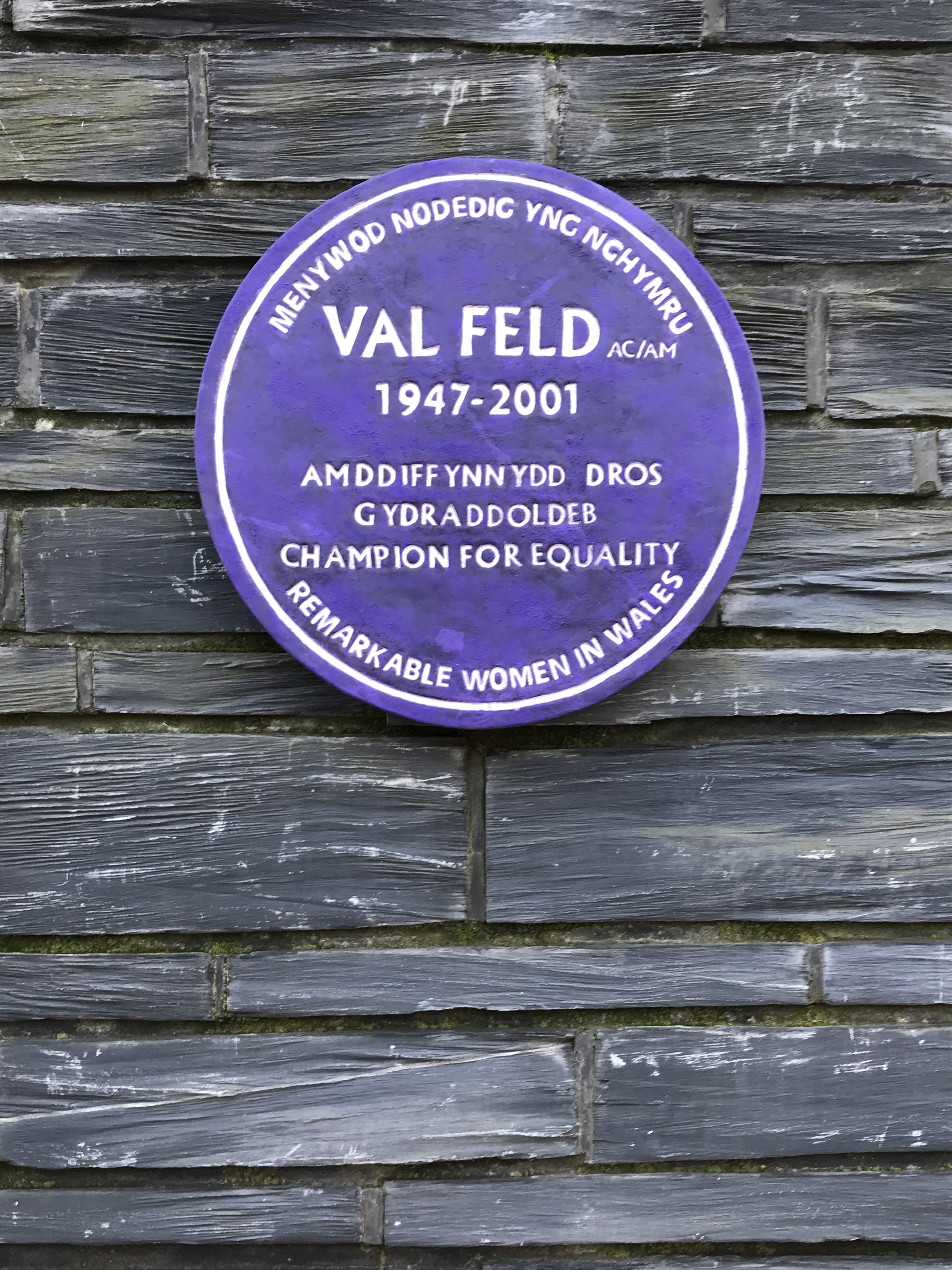 A 'purple plaque' commemorating the life of Val Feld at The Senedd